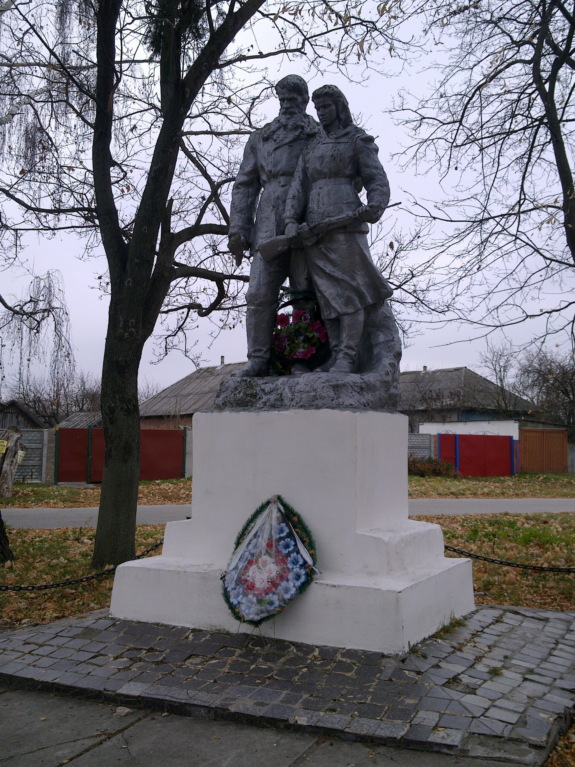 Monument to WW2 partisans in the Ukrainian village of Mochalyshche, Bobrovytsia Raion, Chernihiv Oblast